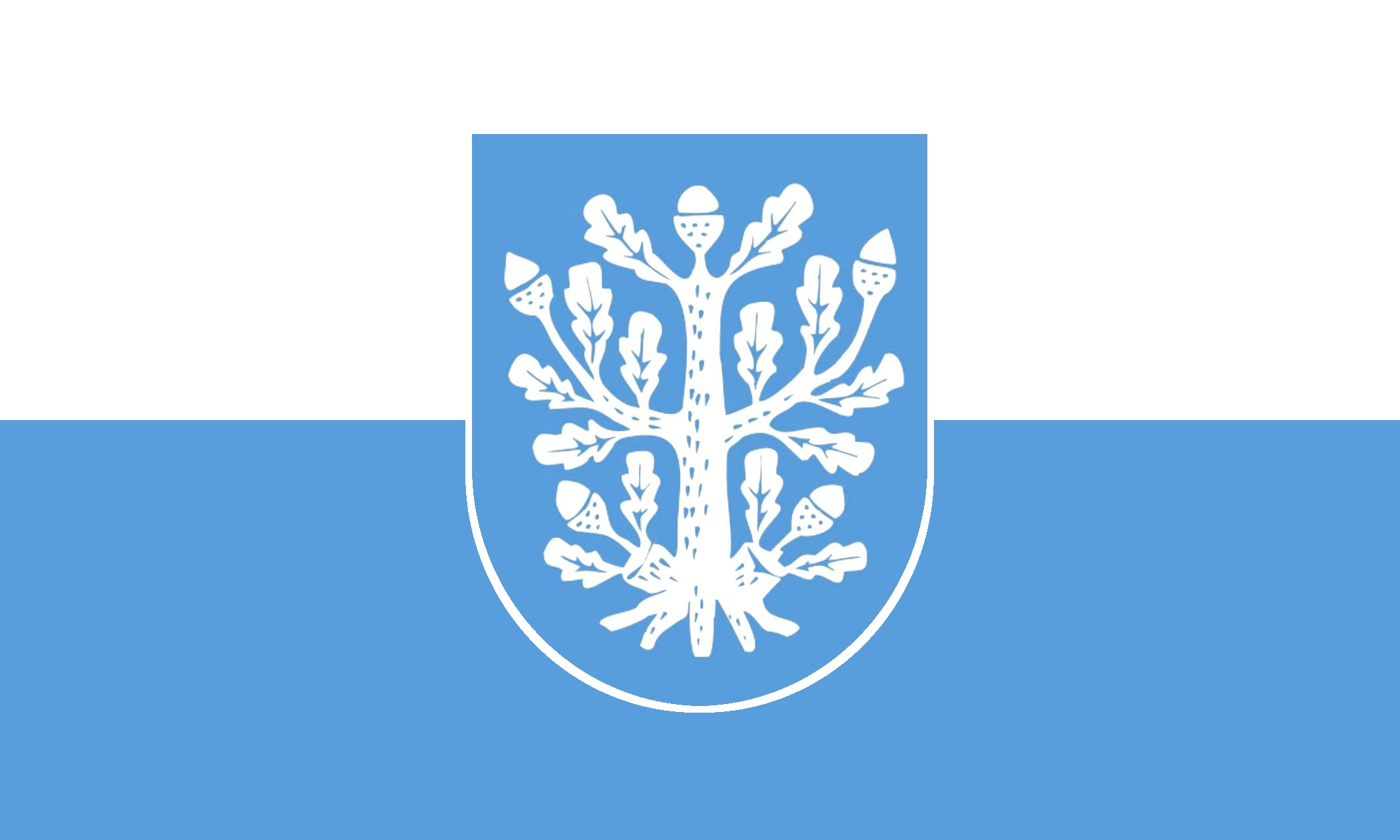 Flag of the German city of Offenbach am Main It is easy to put a border around this image: File:Offenbach am Main flag.jpg|border|100px